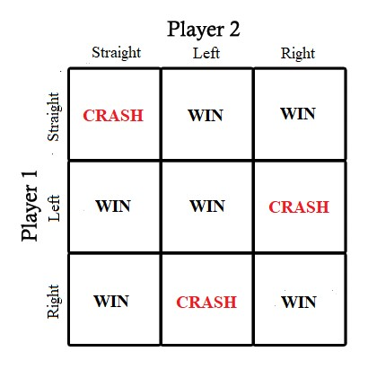 grid for a collision game